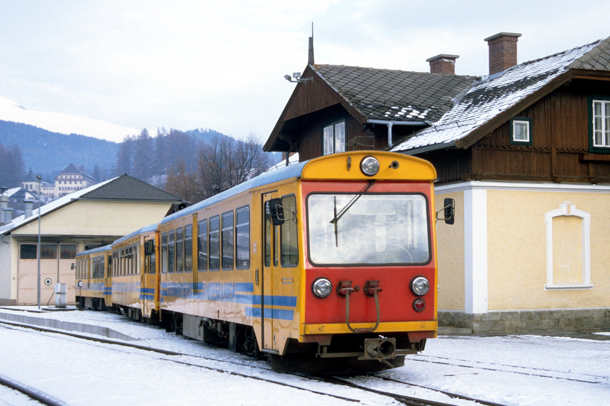 Train of the Murtalbahn in Tamsweg station, the vehicles are still carrying their original yellow livery